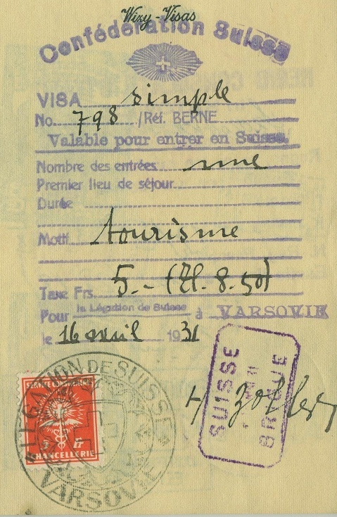 Polish citizen's passport from 1931 - page with Swiss visa. Handled by the Swiss consulate in Warsaw. 5Fr. passport stamp affixed, issued between 1920-1963.